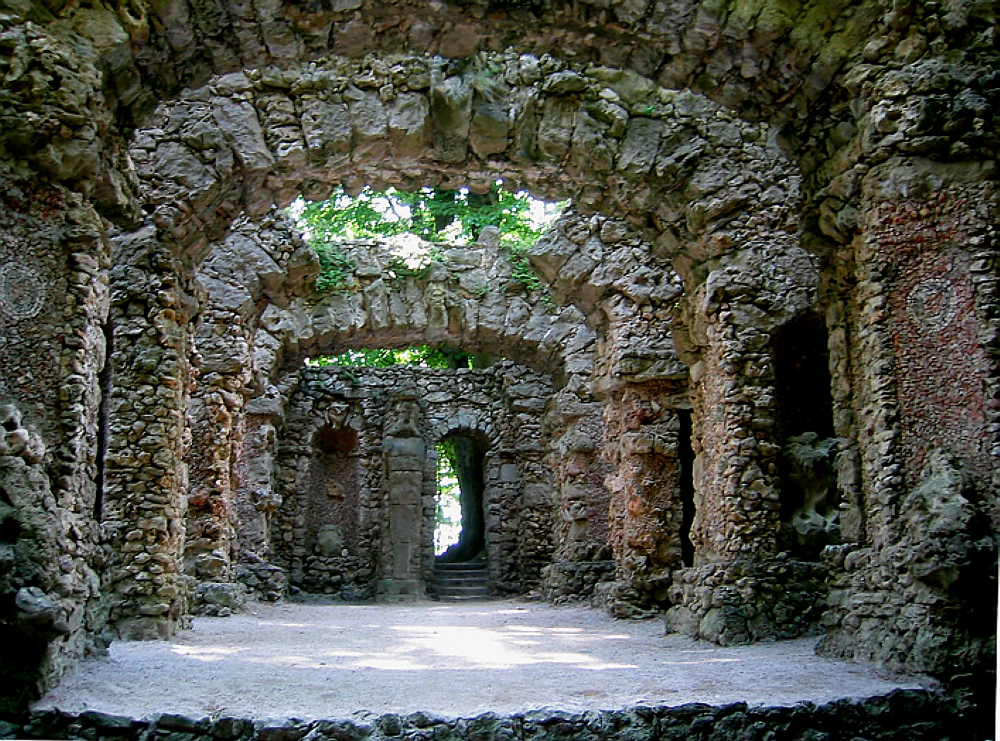 Wonsees near Kulmbach, Bavaria, Germany: Sanspareil gardens, Ruin Theatre